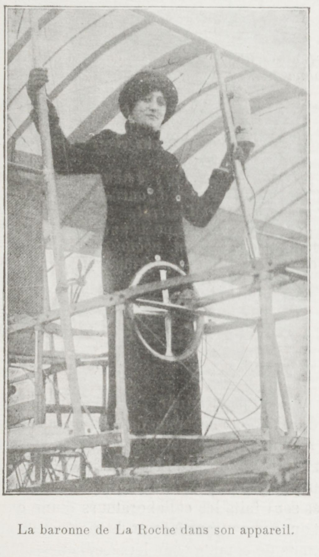 Baronne de la Roche 12th French pilot in her airplane